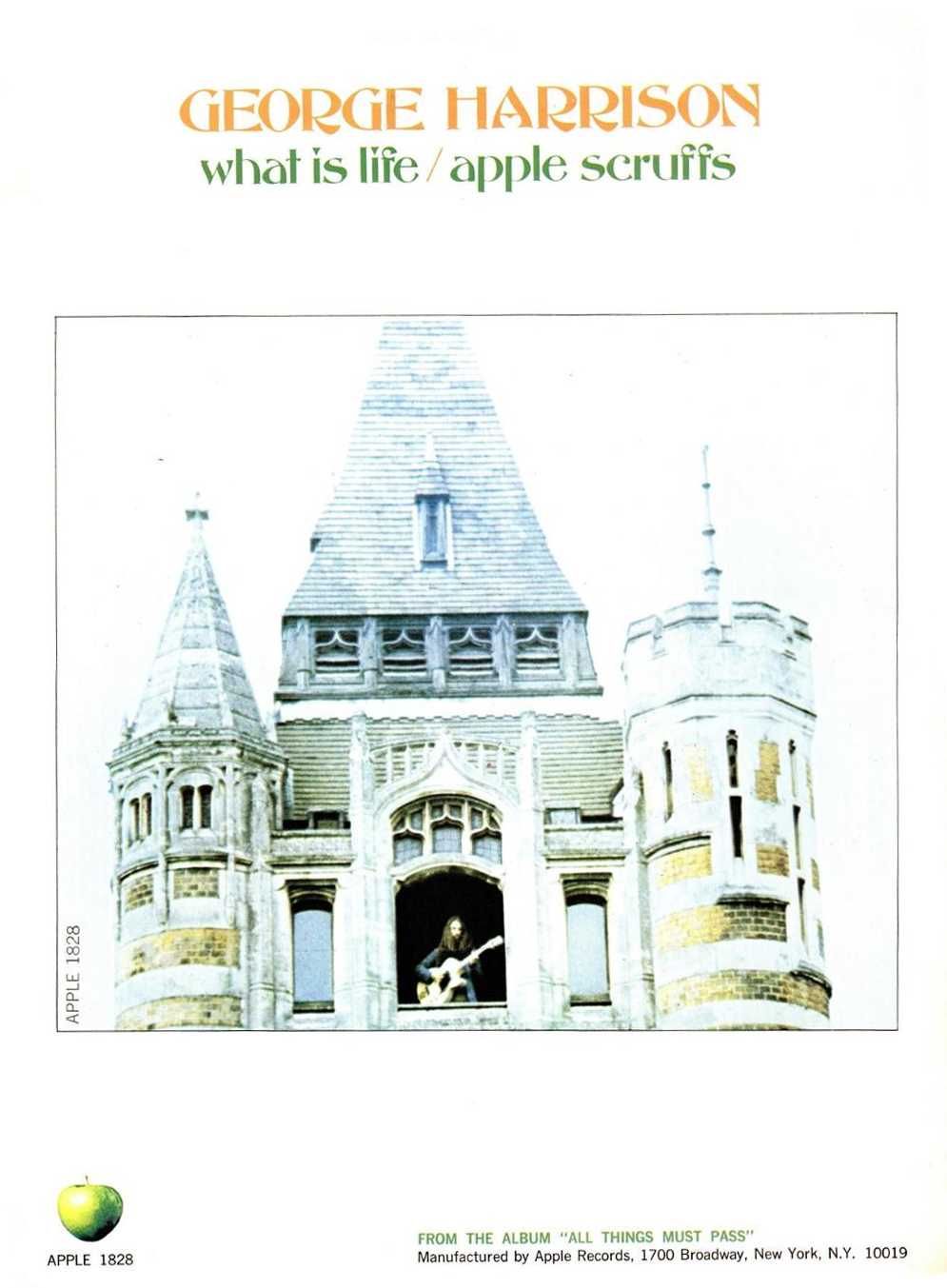 Trade ad for George Harrison's single "What Is Life" / "Apple Scruffs".